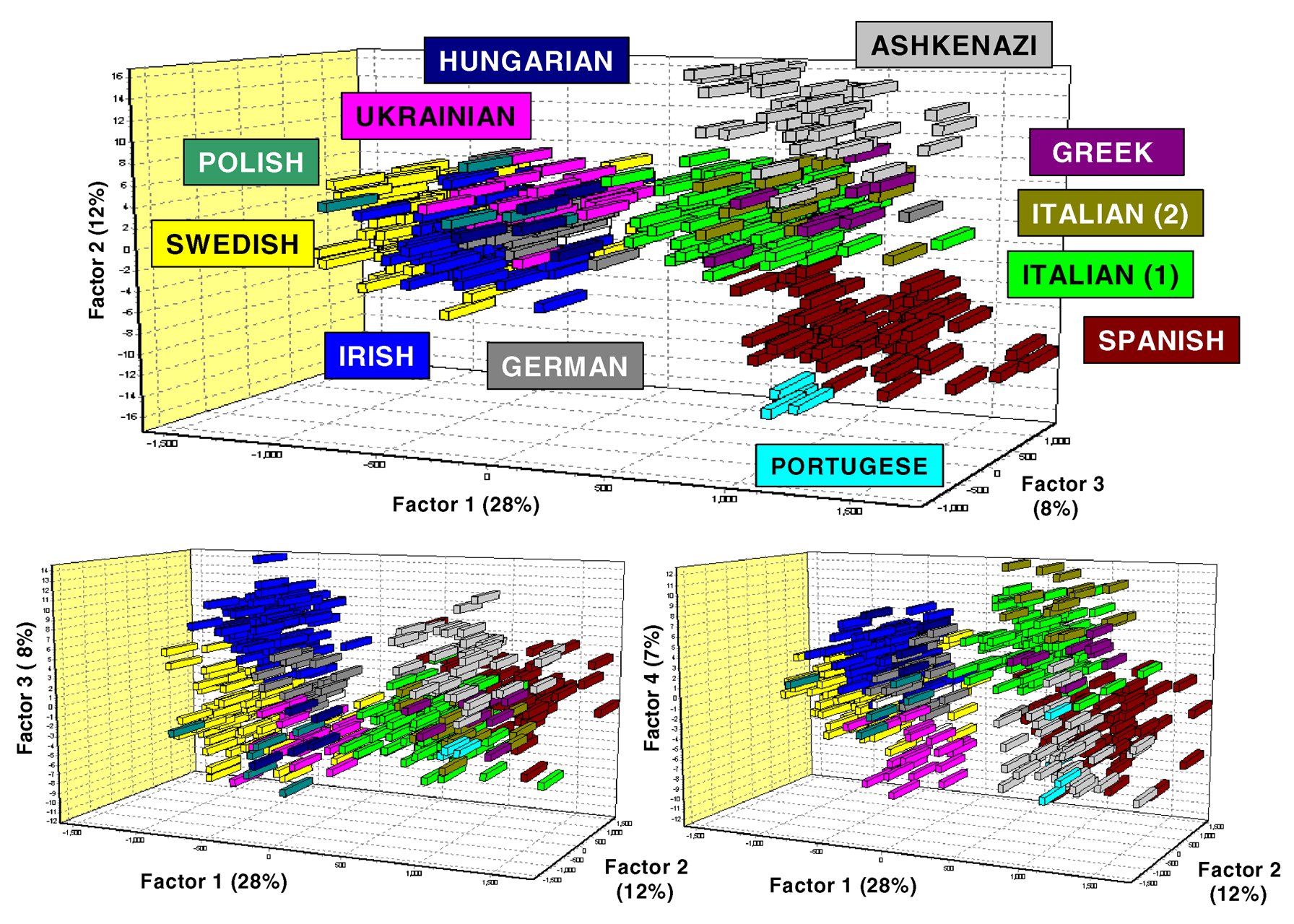 Factor Correspondence Analysis Comparing Different Individuals from European Ancestry Groups. The analysis was performed using 749 single nucleotide polymorphisms (SNPs) informative for European substructure (selected from a genome-wide panel of more than 5700 SNPs). The country of origin is shown by the color coding indicated in the upper panel. The individual participants are represented by rectangular shapes distributed by the strength of their separation in three dimensions: along the first factor (abscissa), second factor (ordinate), and third factor (depth). This factor analysis is based on vectors fitted to the individual allele frequencies of each SNP. The percentage of inertia for each factor is provided on each of the axes and correspond to the eigenvalue vectors.